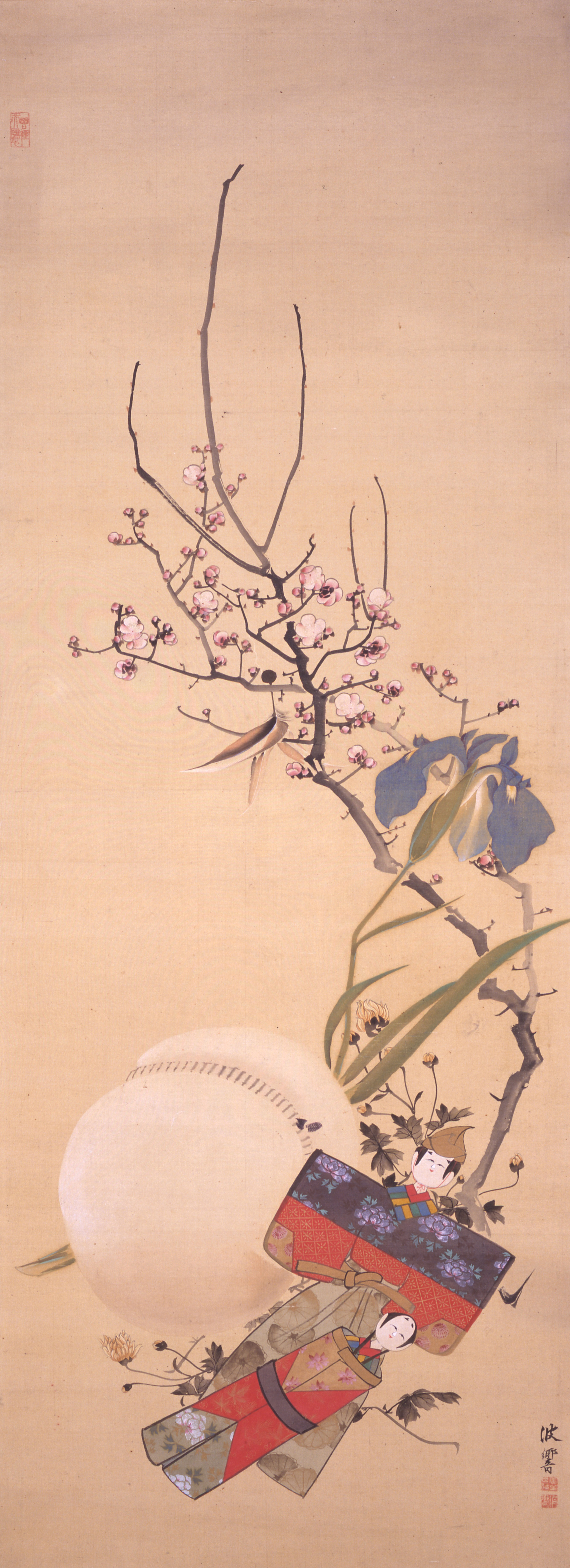 Gosekku-zu, by Kakizaki Hakyo, Hakodate City Museum, Hakodate, Hokkaido, Japan